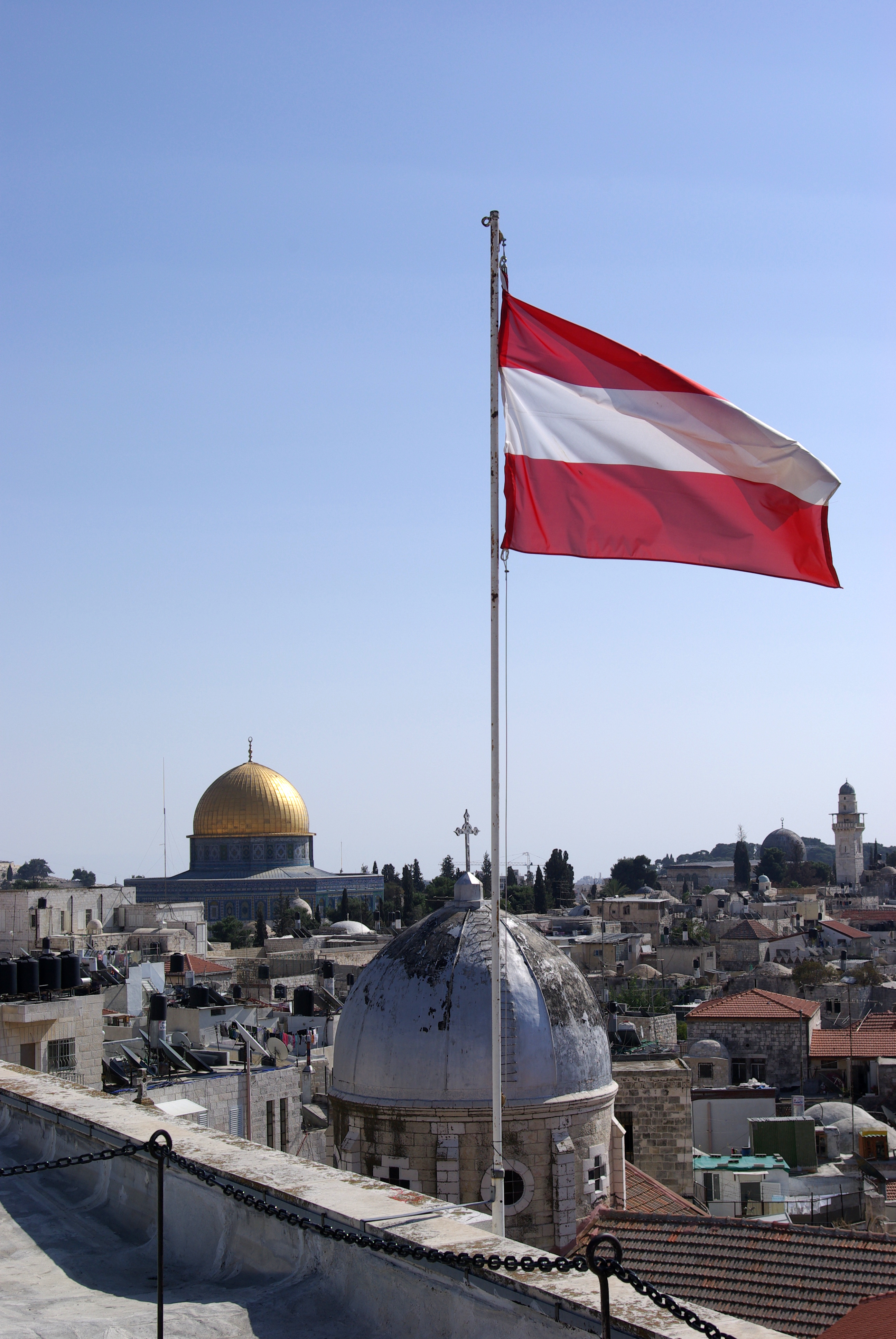 Jerusalem: A view across the old city. The Dome of the Rock marks the horizon. Seen from the roof terrace of the Austrian_Hospice_of_the_Holy_Family in the Muslim Quarter of old Jerusalem, looking towards the south. In the foreground the silver dome of the armenian catholic church "Our Lady of the Spasm". Before this church is the Fourth station of the Via Dolorosa. In the background, left side, the golden Dome of the Rock. The Flag of Austria floats on the building.